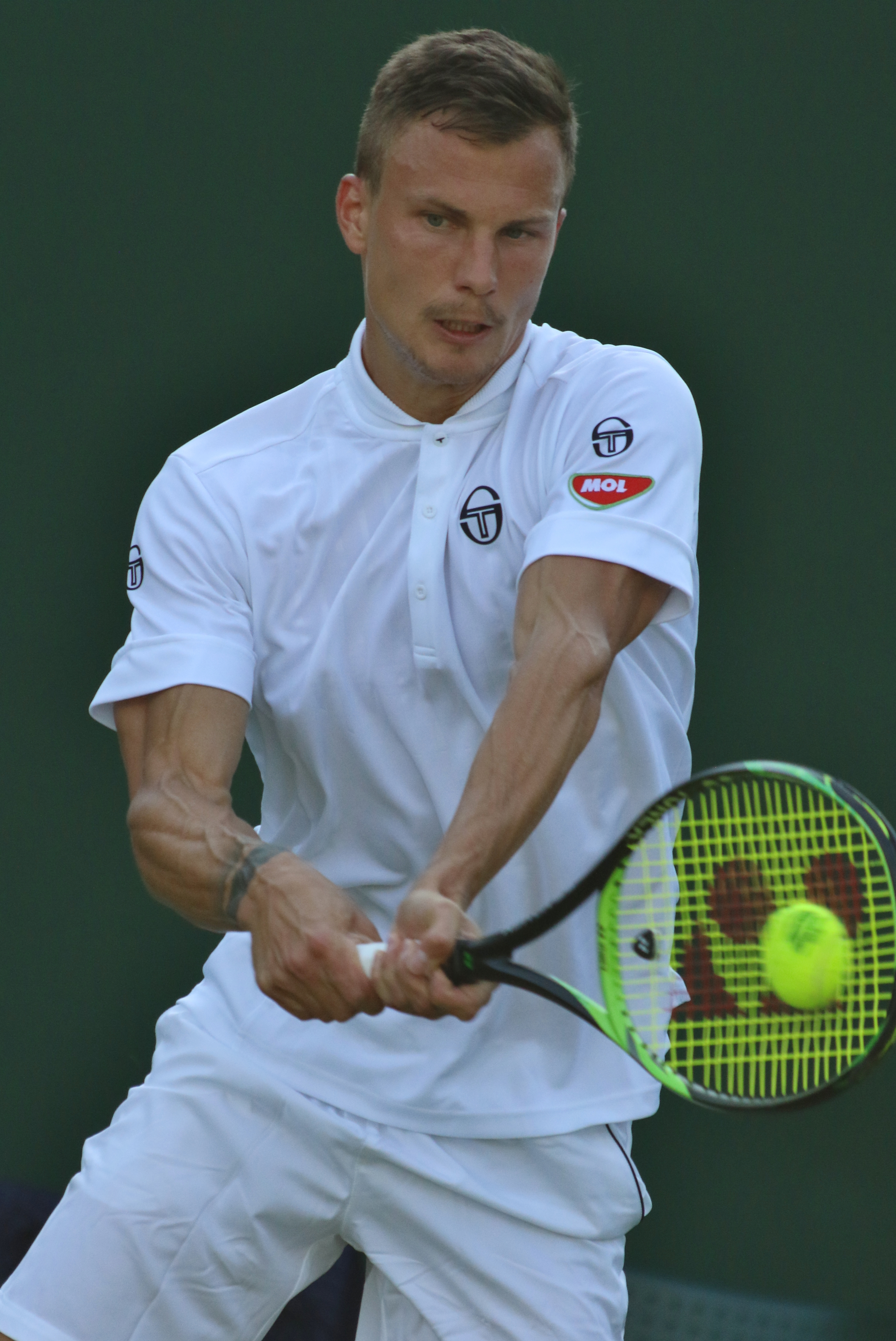 Fucsovics WM19 (4)